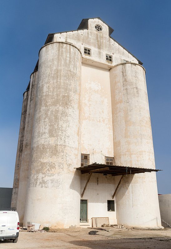 Silo de cereales en Corral de Almaguer